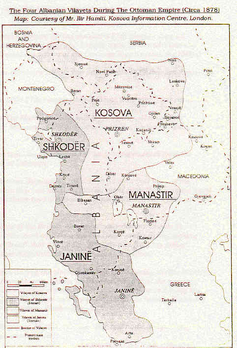 Albanian territory during Ottoman rule